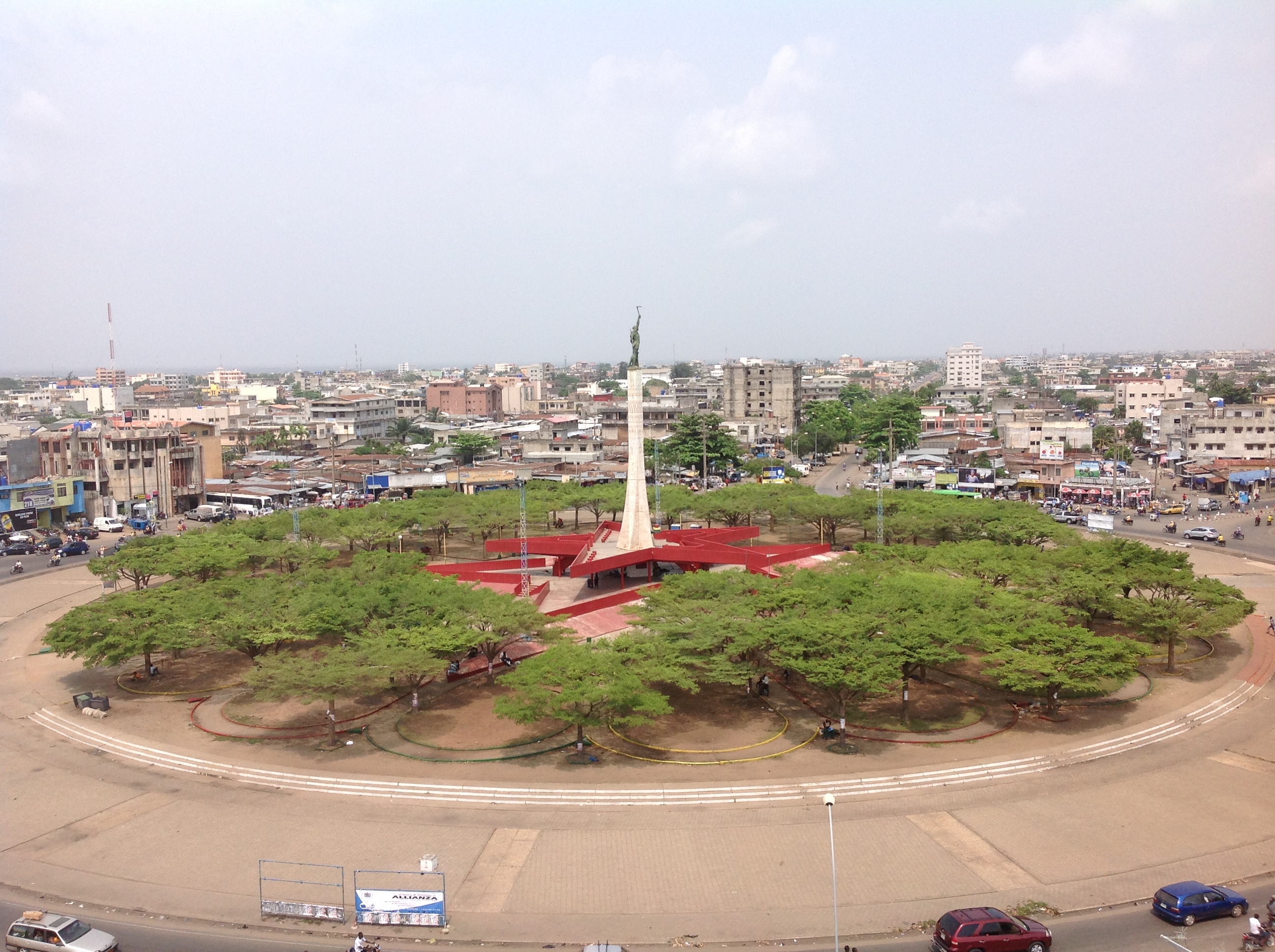 This picture show the place of red star in Cotonou city's in Bénin